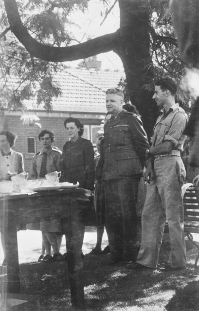 Staff of the Australian military's Military History Section enjoying their Christmas Party at Melbourne on Christmas Eve 1943. SHOWN ARE: VX39804 LT-COL J. L. TRELOAR, OBE (1); MISS E. SOUTHERN (2); PRIVATE (PTE) V. WALKER (3); CORPORAL M. R. WOODS (4); SERGEANT CARMICHAEL (5); PTE RAFTY (6).